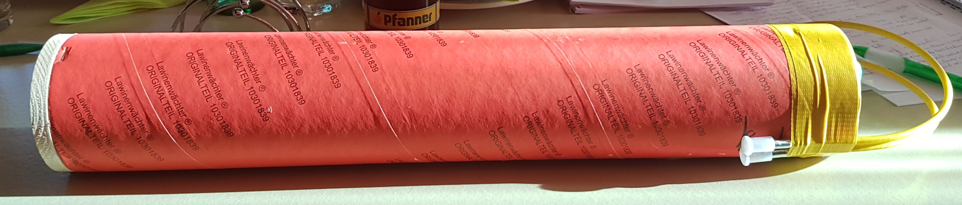 Lawienenwaechter (Avalanche guardian). Explosive charge.